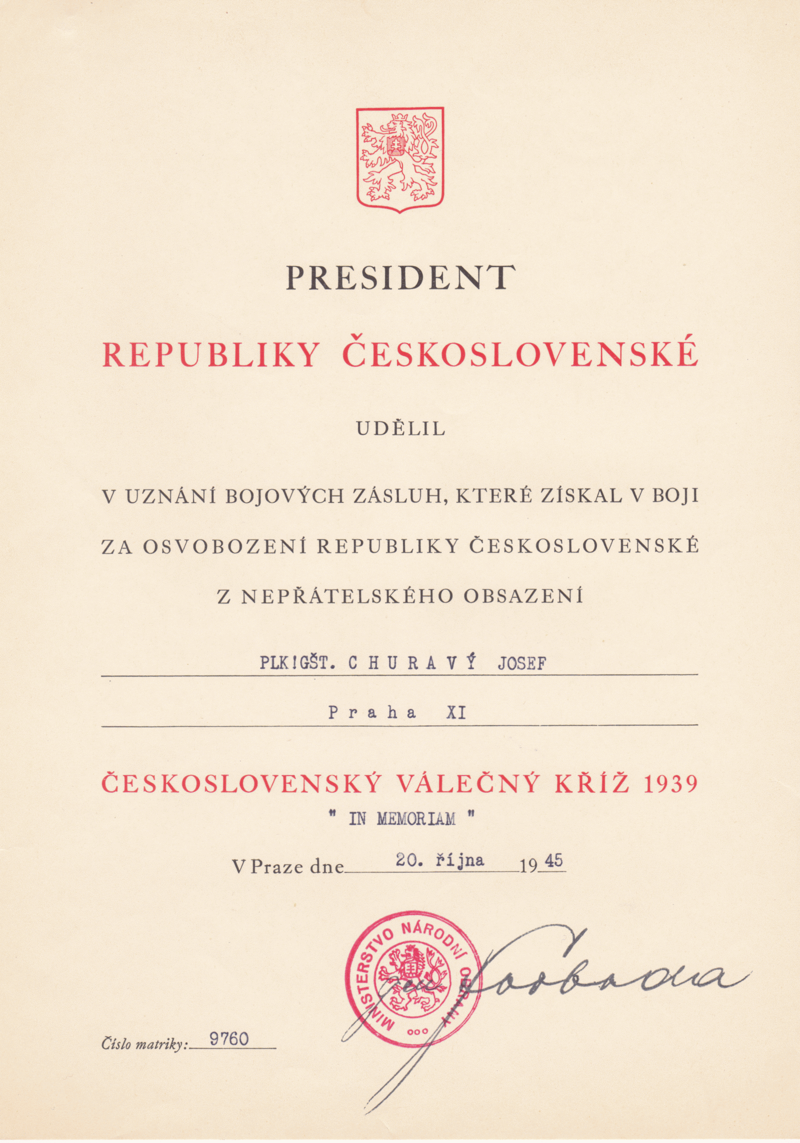 Document of conferment of military decorating (Czechoslovak War Cross 1939) given to Josef Churavý (in memoriam) The President of the Czechoslovak Republic awarded the "Czechoslovak War Cross 1939" in the fight for the liberation of the Czechoslovak Republic from the enemy occupation, in recognition of the wartime merit gained by the Colonel of the General Staff CHURAVÝ JOSEF (Prague XI); "in memoriam"; in Prague on 20 October 1945; Registry number: 9760. Ministry of National Defense; signed by the Minister of National Defense: General Ludvík Svoboda.